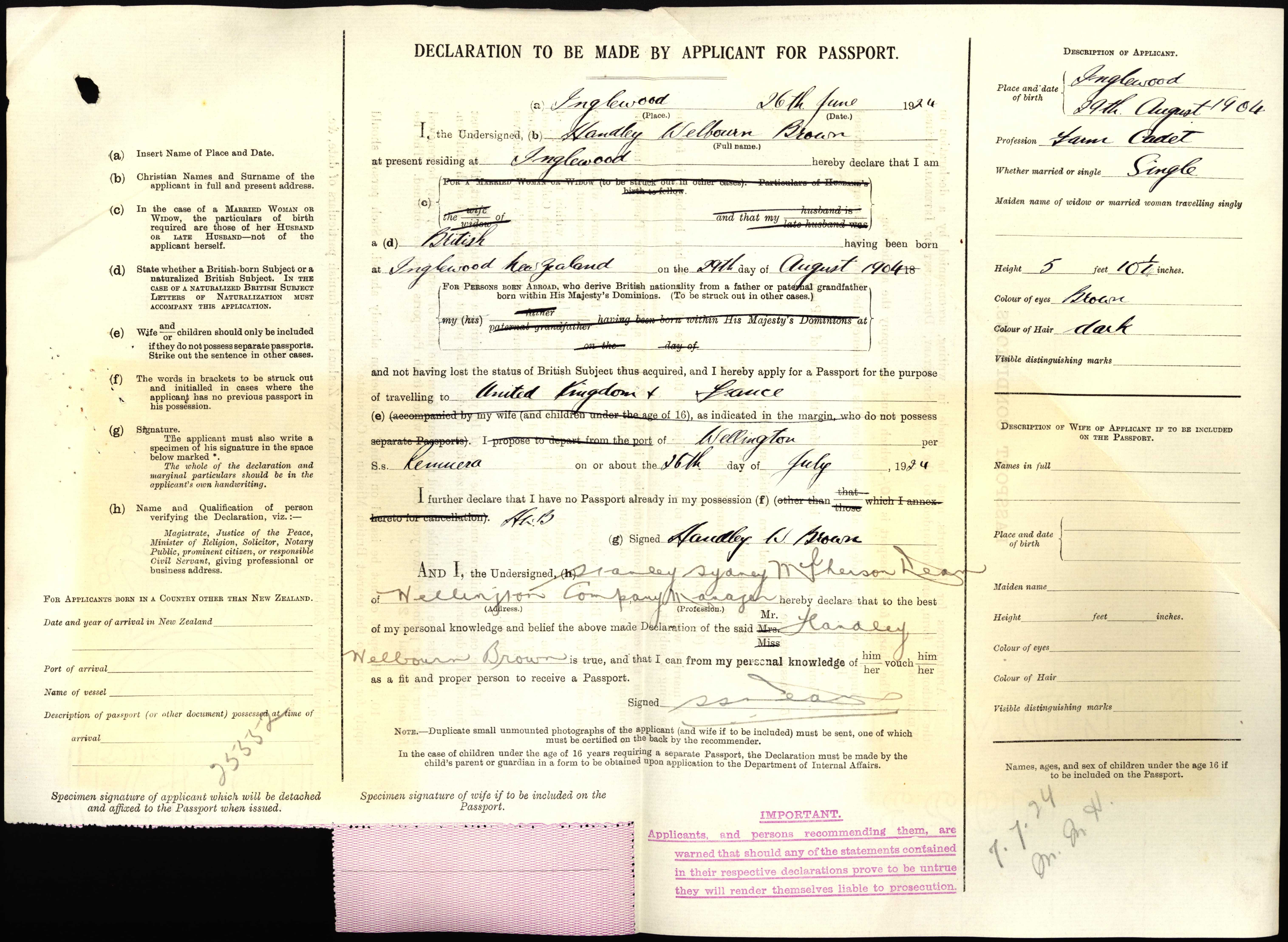 ACGO 8333 IA1 1349 / 15/11/17721 Handley Brown passport application (1924)